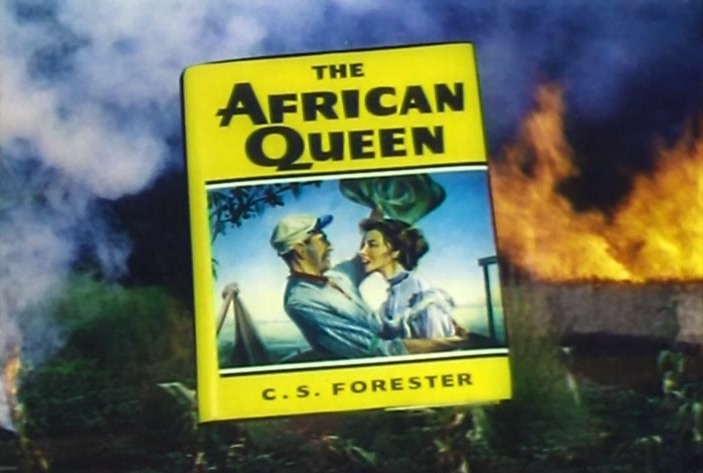 Screenshot from the trailer for the film The African Queen.